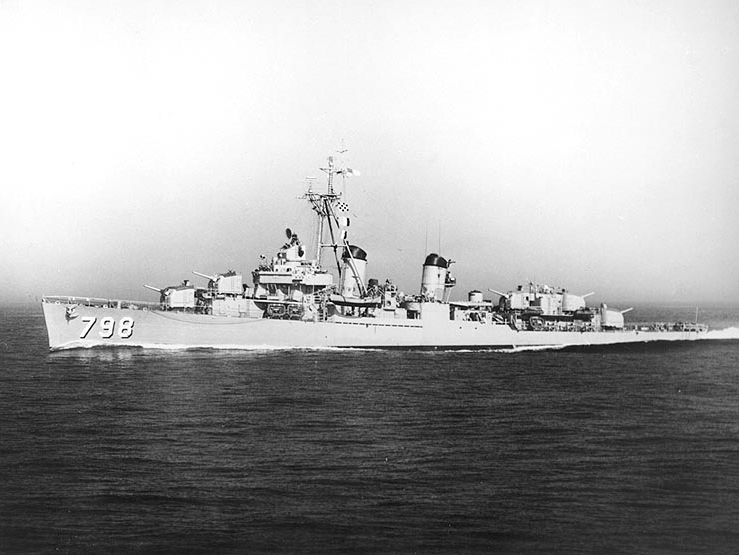 The U.S. Navy destroyer USS Monssen (DD-798) underway off Newport, Rhode Island (USA), on 17 July 1953.